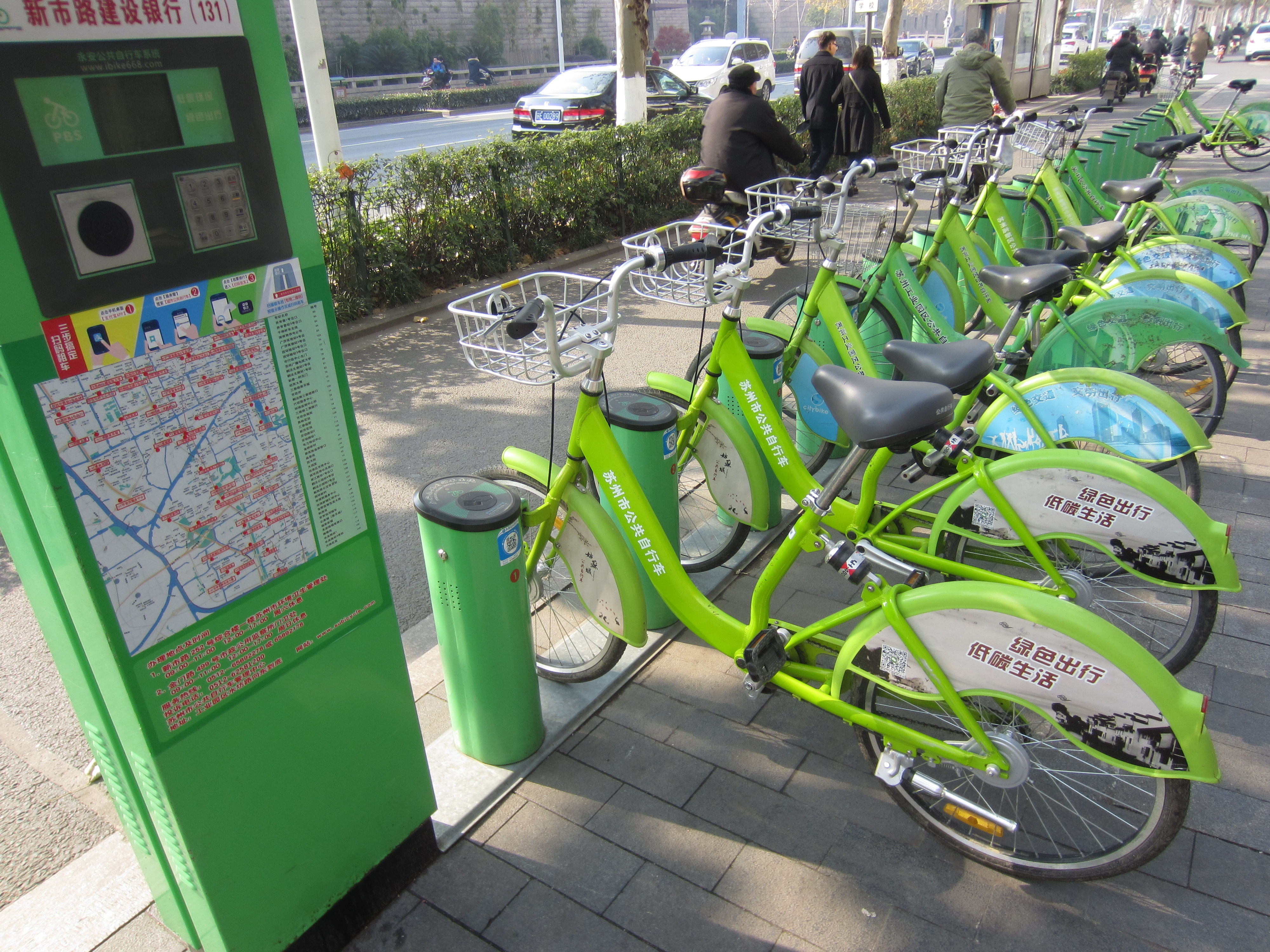 Suzhou, China, December 2015